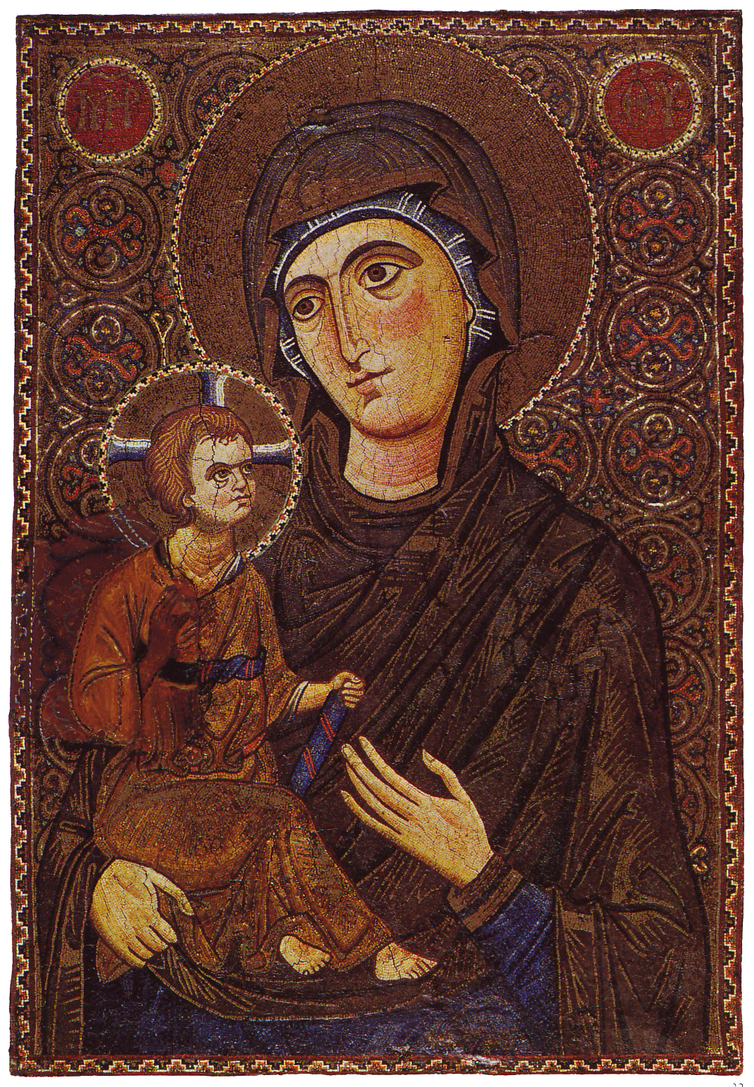 Mary and the child depected as a hodegetria. Tesselated icon in monumental style, early 13th century. 44.6 x 33 cm